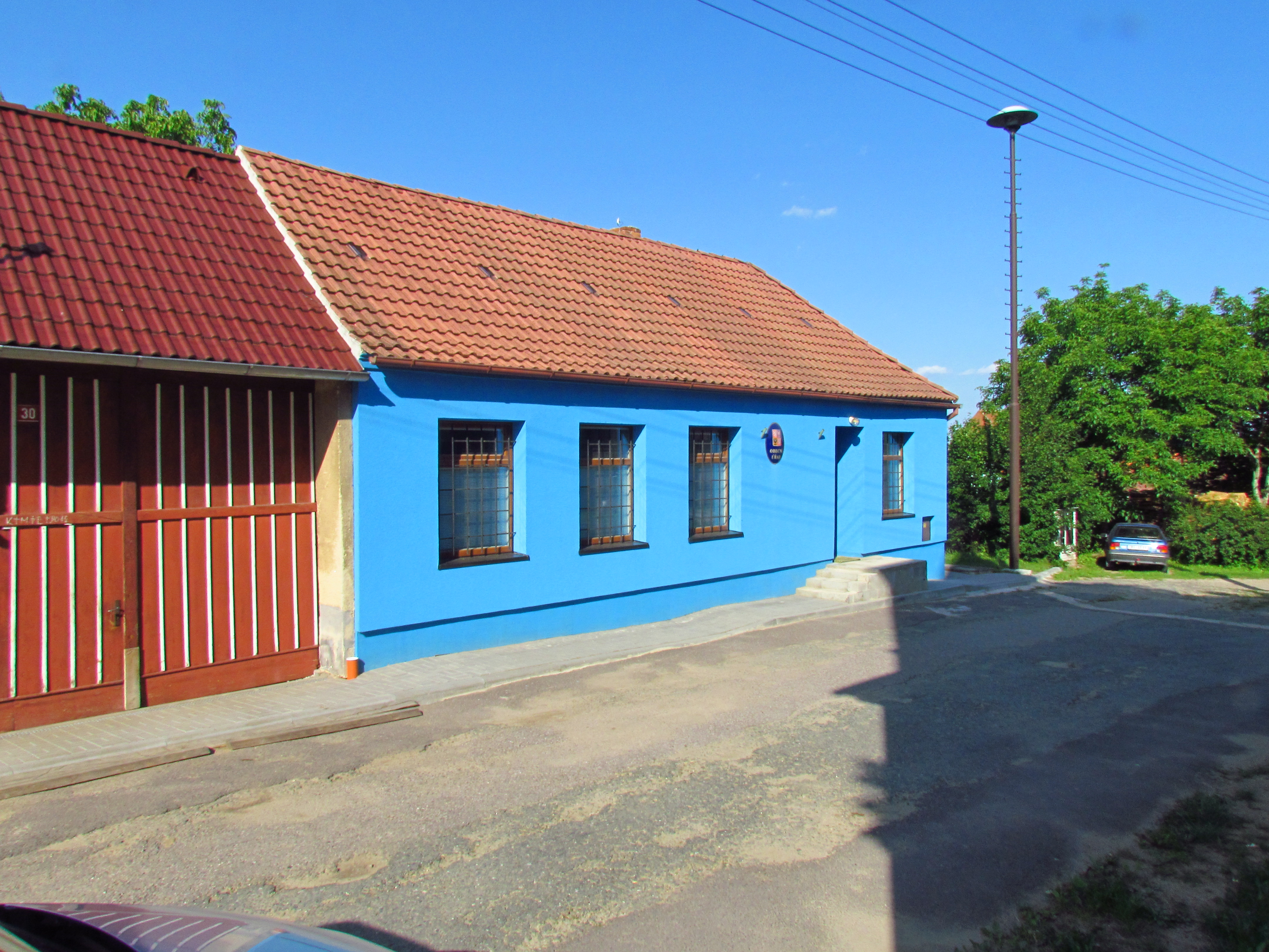 Municipal office in Přešovice, Třebíč District.